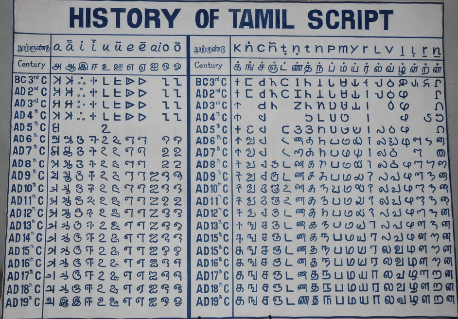 History of Tamil script, found at Dakshina Chitra, Chennai. Photo taken by me with D70s; credit is appreciated.